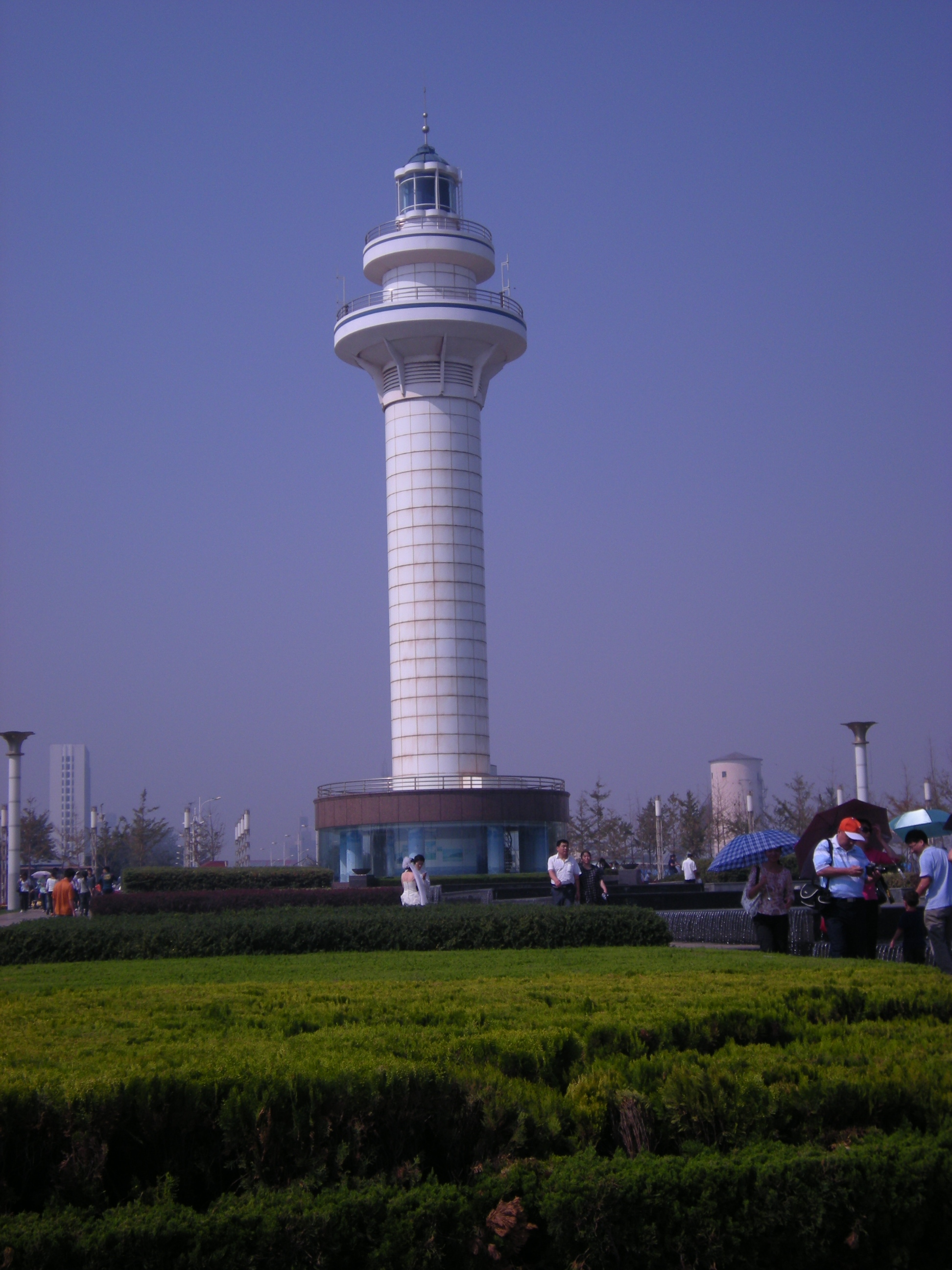 Lighthouse_of_RiZhao